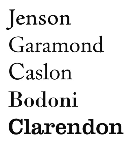 Typefaces: Antiqua Styles (Old Style, Transitional, Modern Face, Slab Serif)